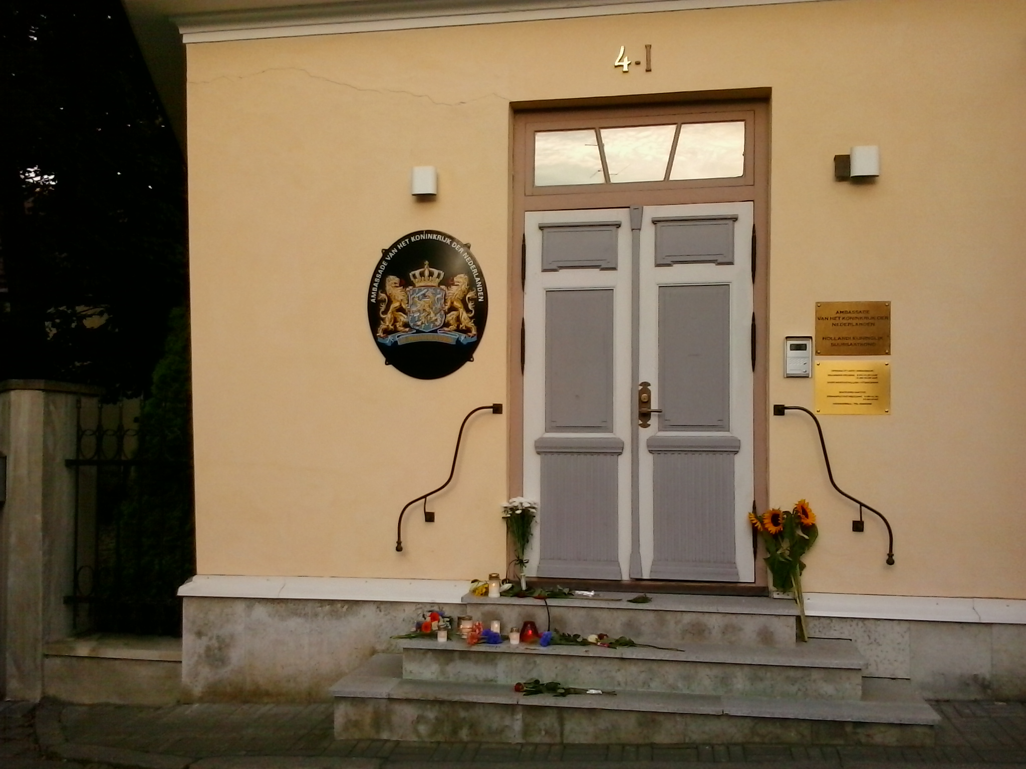 Flowers and memorial candles on the steps of Embassy of the Kingdom of Netherlands door in Tallinn, Estonia.